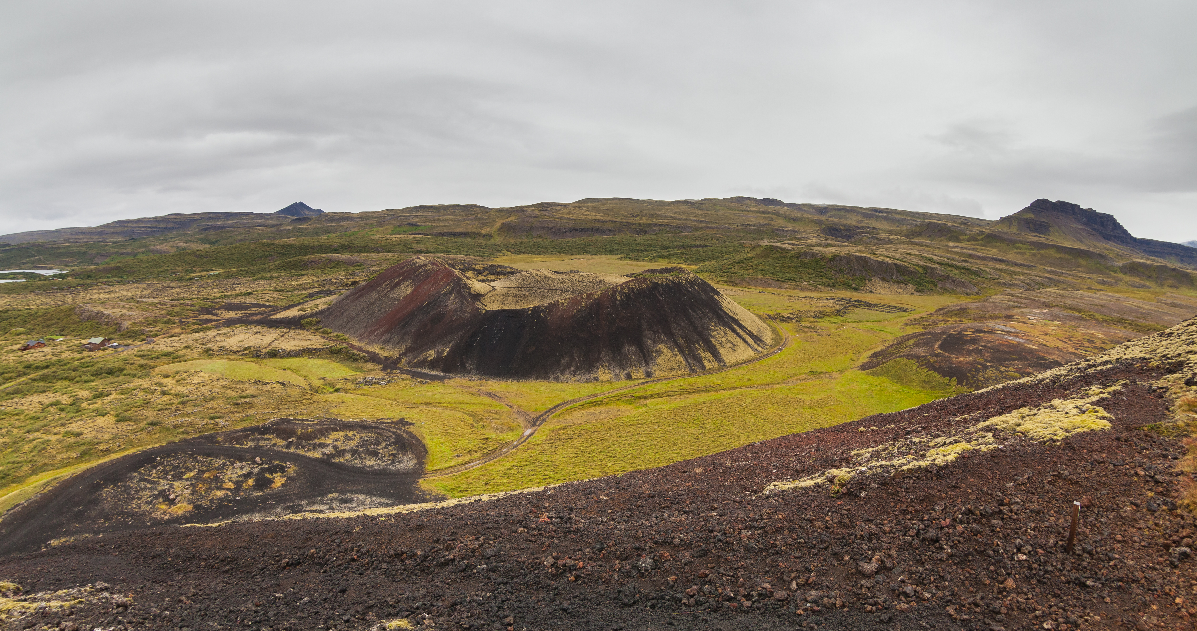 Litli Grábrók crater, Vesturland, Iceland